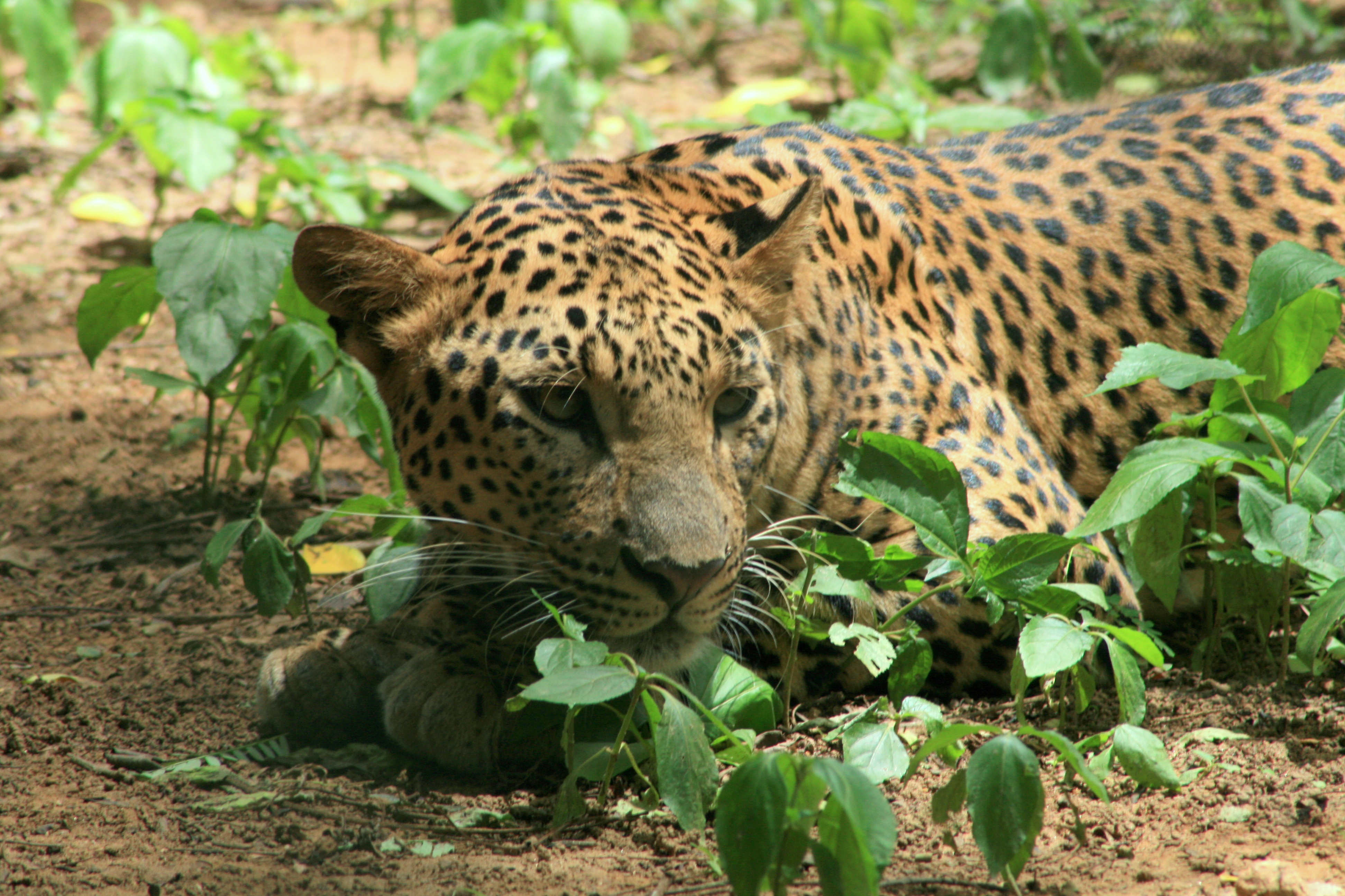 A leopard in Bannerghatta National Park, Karnataka, India